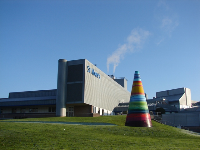 St Mary's Hospital, off Medina Way, Newport, Isle of Wight, seen in November 2005.